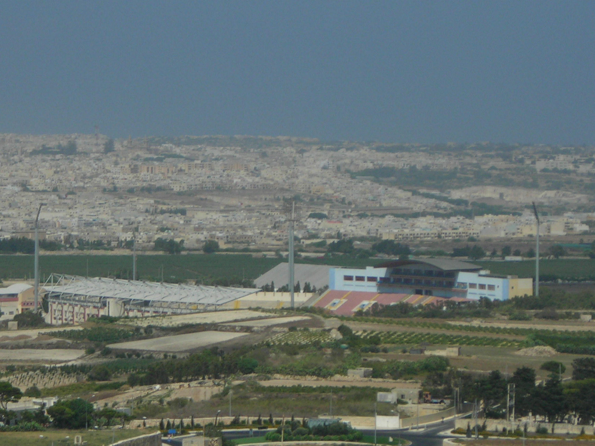 A view at Ta'Qali National Stadium from Mdina, Malta